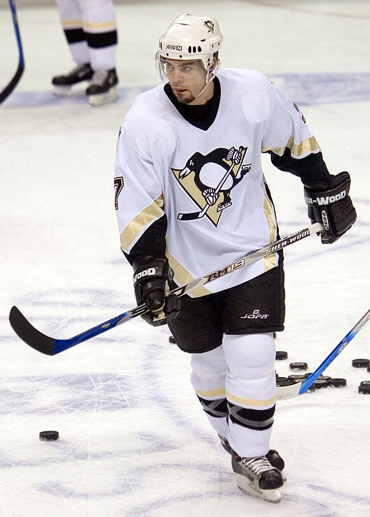 Pittsburgh Penguins vs. San Jose Sharks